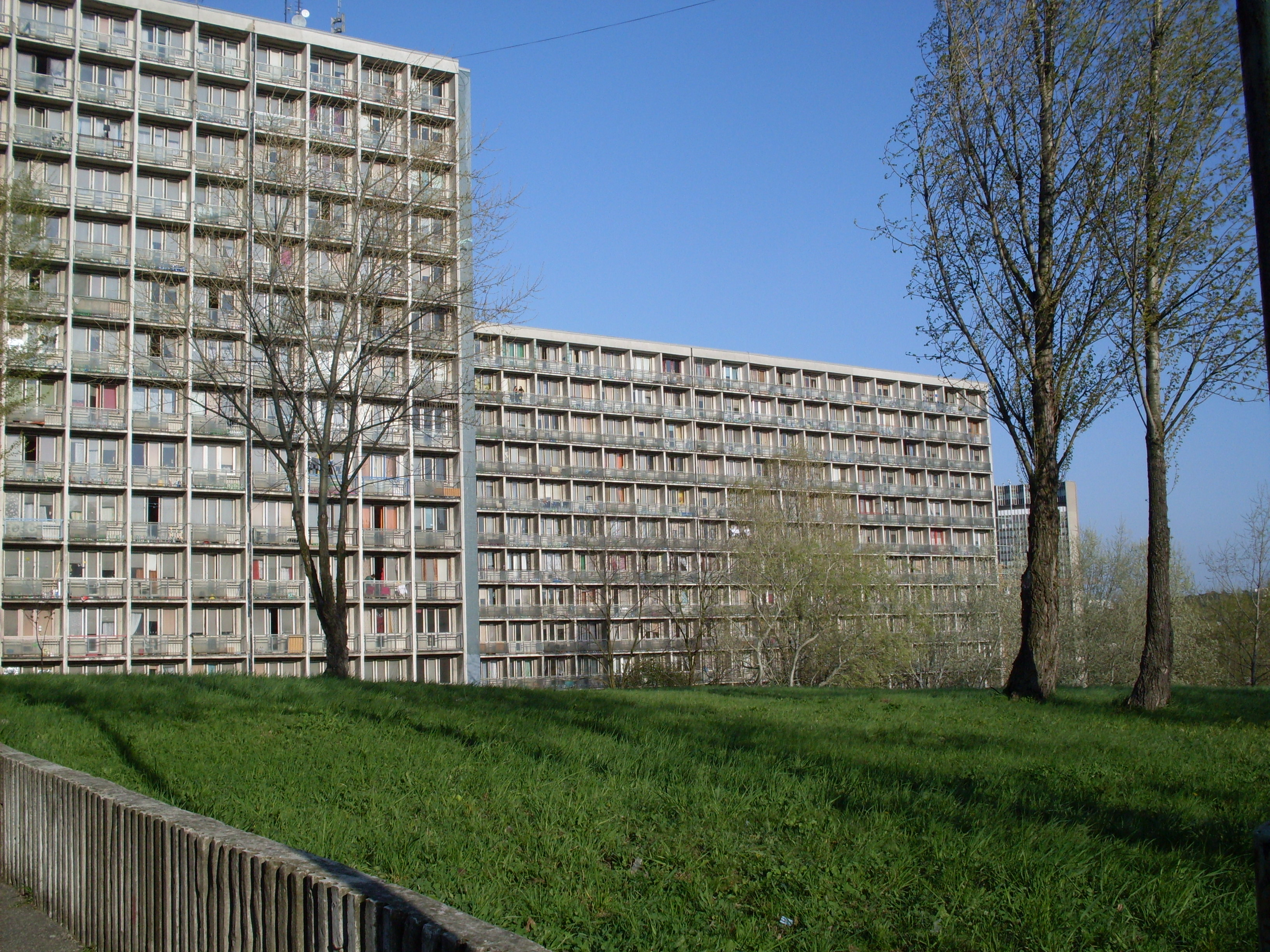 Sturak VBA and VBB. Higher Education Town of Ľ.Štúra - Mlyny, Buildings of the students dormitory of Ľ. Štúr.